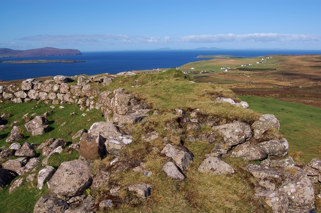 Dun Hallin Part of the wall of the fort. The drop on the outside (right) of the wall is about 4m. On the inside, the floor level has been raised by the inward collapse of the wall.